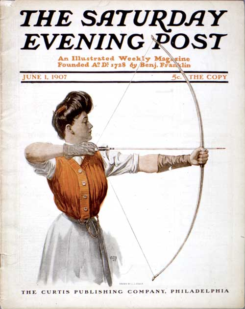 Woman Archer by J.J. Gould. Saturday Evening Post cover, June 1, 1907.